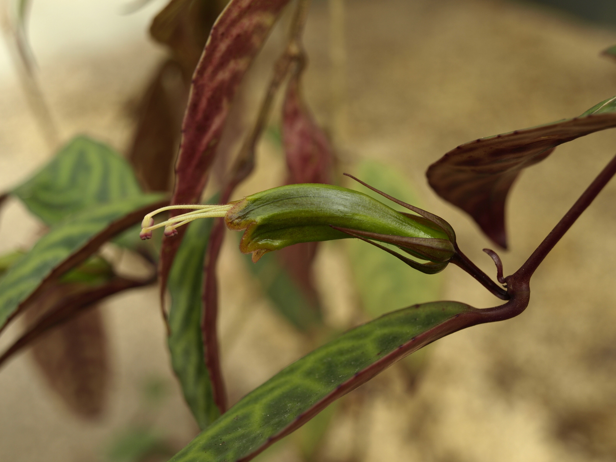 FIU Biology Greenhouse, Florida International University, Miami.